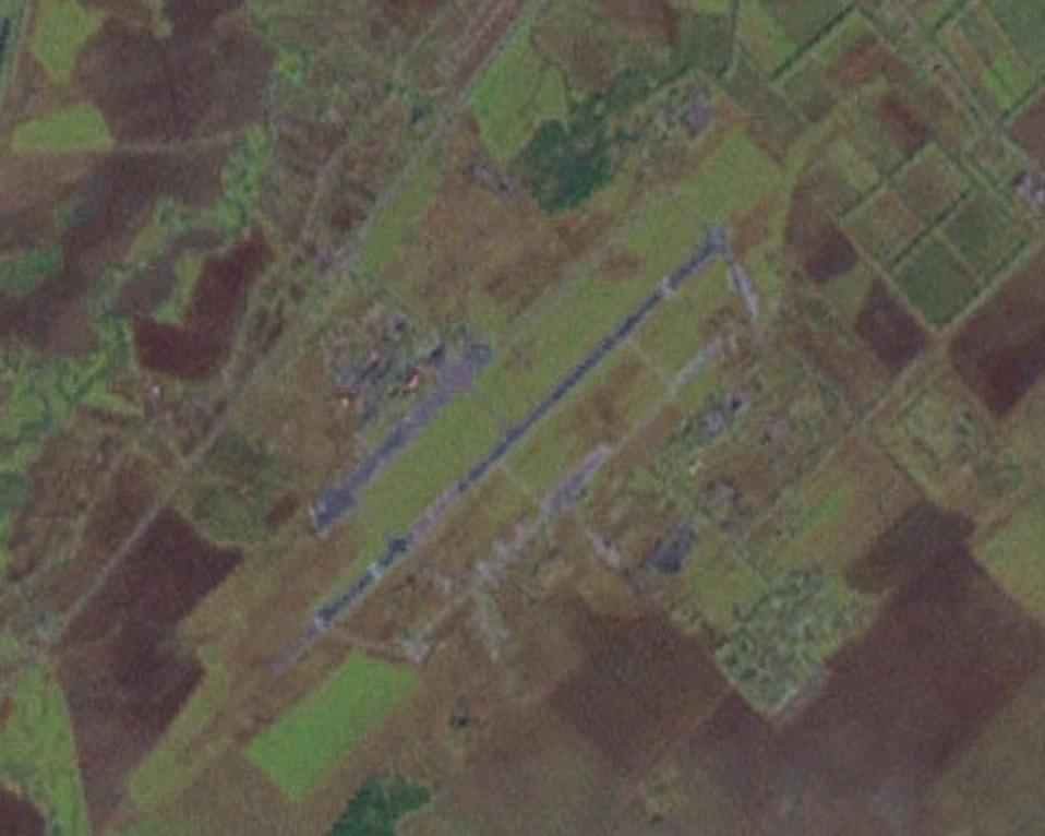 Perm/Bolshoye Savino airfield, former Soviet Union.